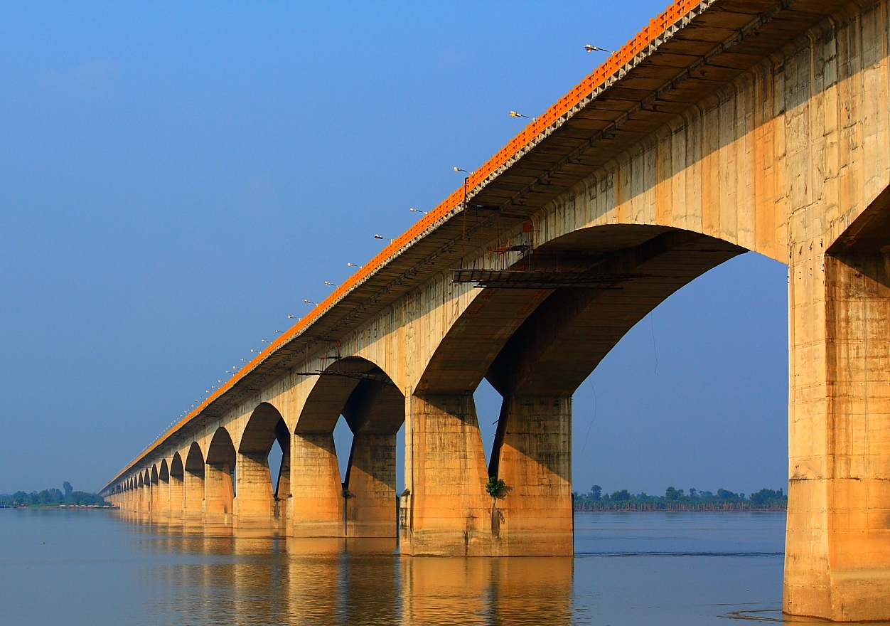 Cropped version of the original image of Mahatma Gandhi Setu in Patna, India.